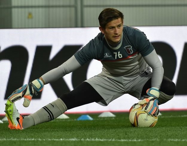 Tiago Sá